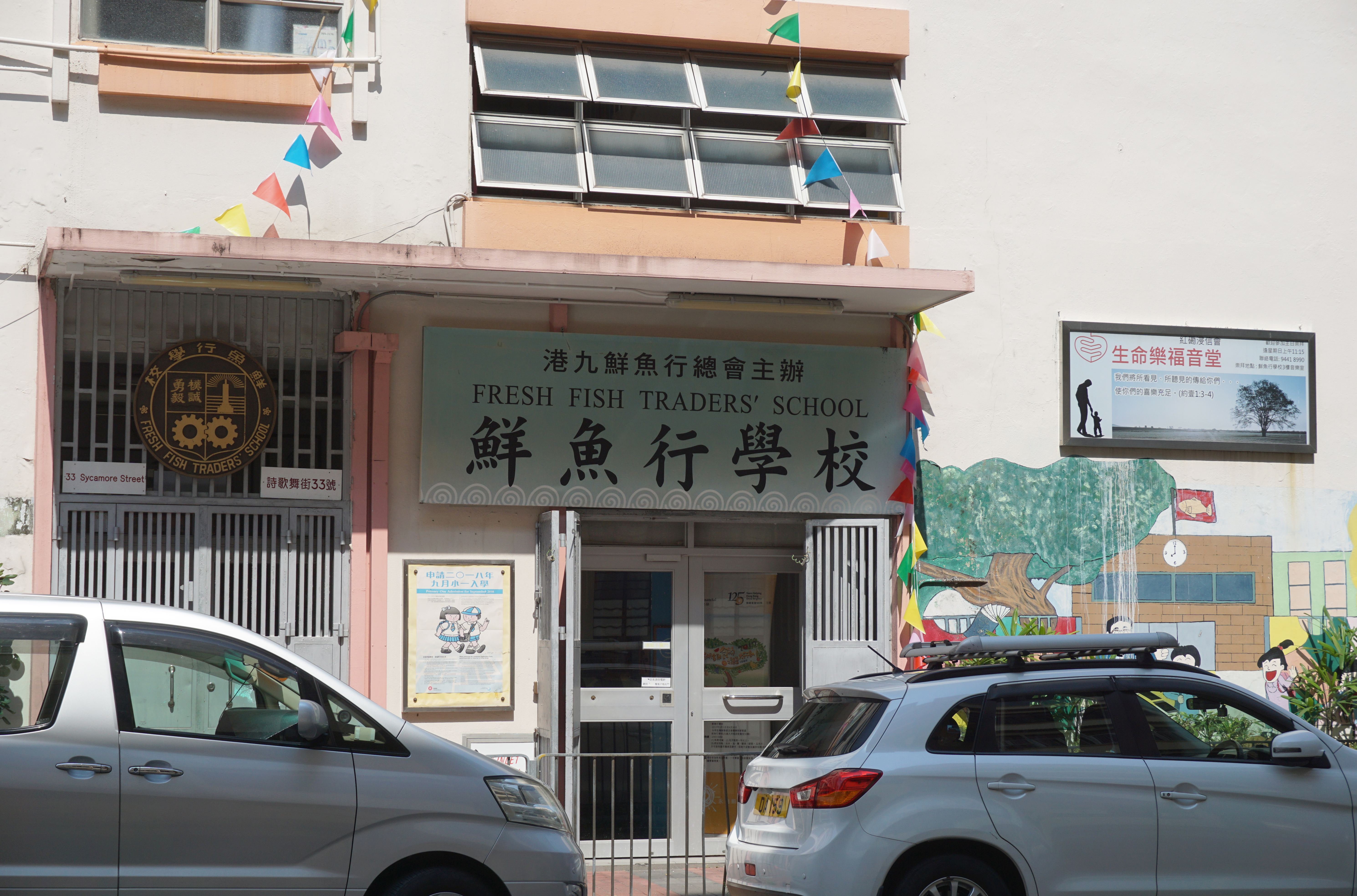 Fresh Fish Traders' School in Tai Kok Tsui, Hong Kong.